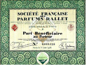 1926 Rallet stock certificate (void)